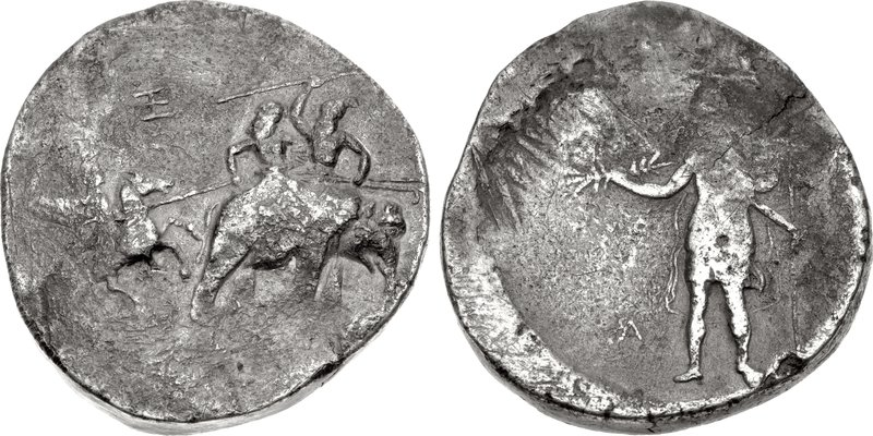 KINGS of MACEDON. Alexander III ‘the Great’. 336-323 BC. AR Poros medallion